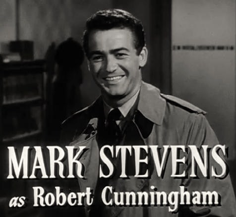 Mark Stevens in The Snake Pit - trailer (cropped screenshot)